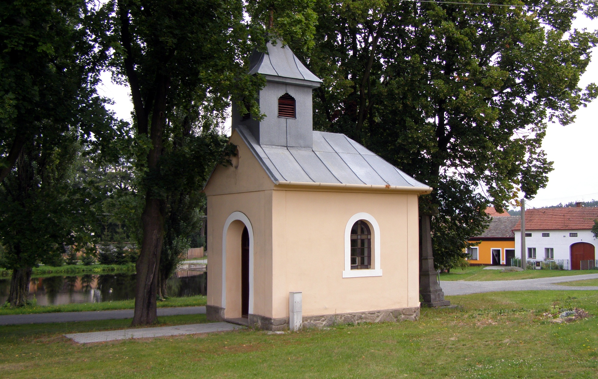 Hostákov village, part of Vladislav. Chapel